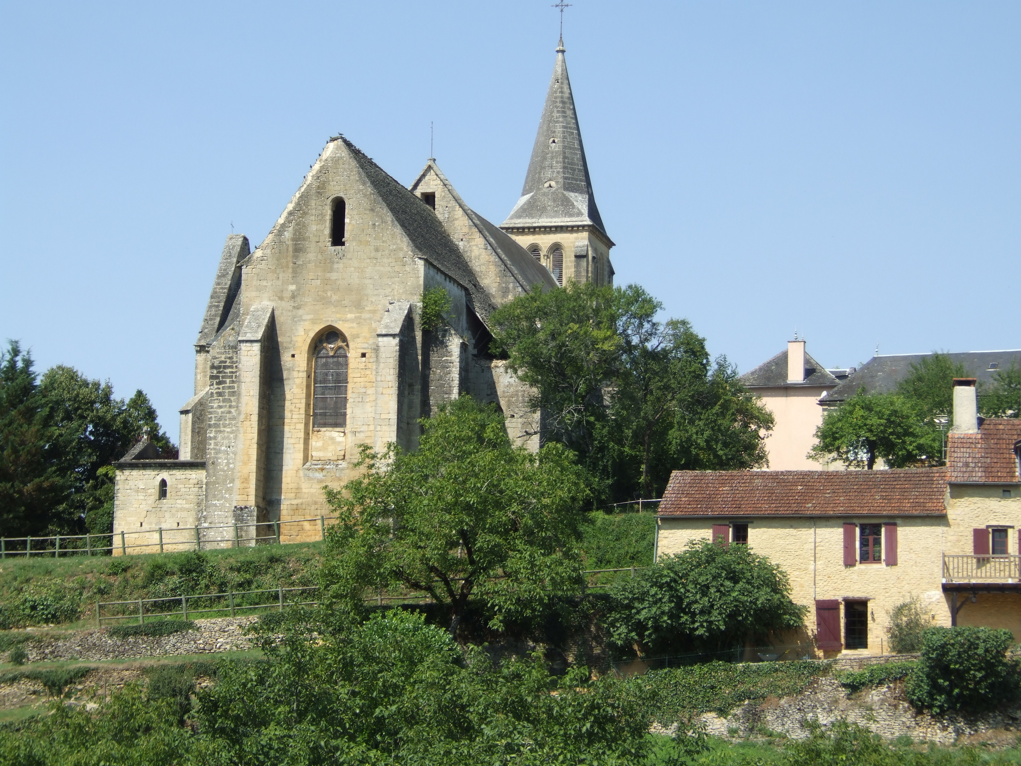 Parish church of Salignac-Eyvigues (France)